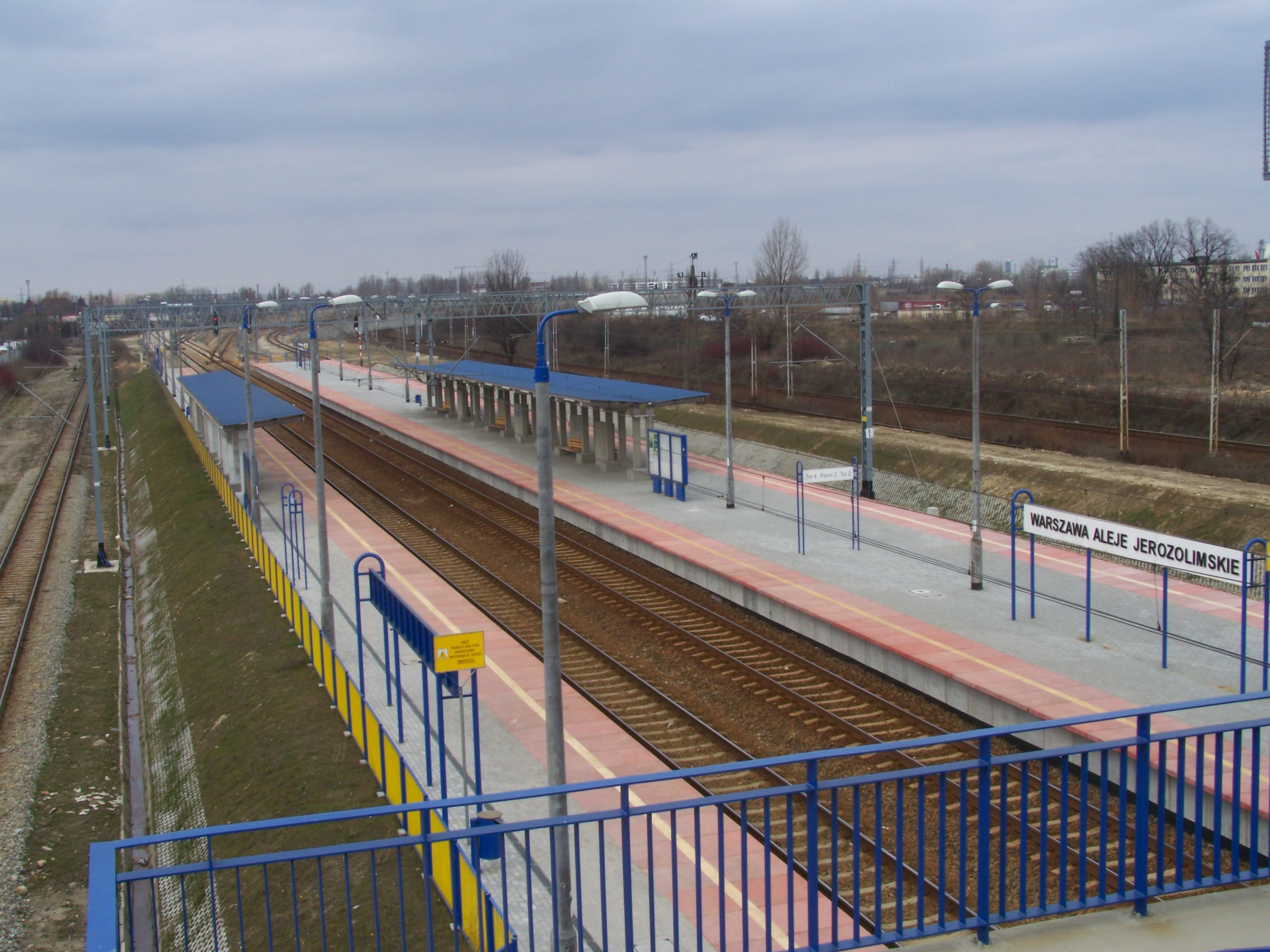 Warszawa Aleje Jerozolimskie station. View from catwalk.